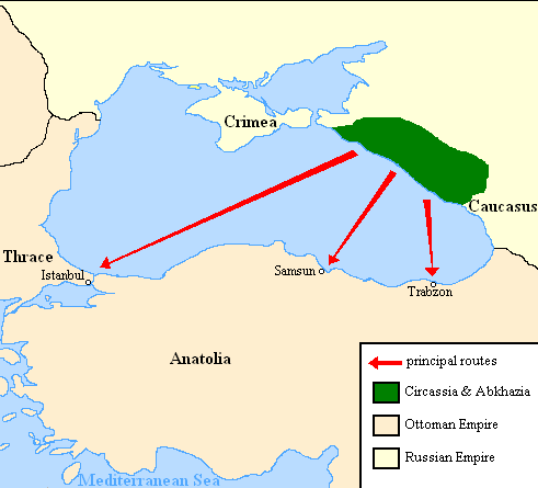 Map showing the location of Circassia and the expulsion routes (1859-1864) of the Circassians and other Caucasian peoples to the Ottoman Empire, after the Russian annexation of the North-Caucasus following the Crimean War of 1853-1856. I used the information of the following two maps: File:Europa1814.jpg And the books: The Northwest Caucasus: past, present, future, Walter Richmond The forgotten minorities of Eastern Europe, Arno Tanner